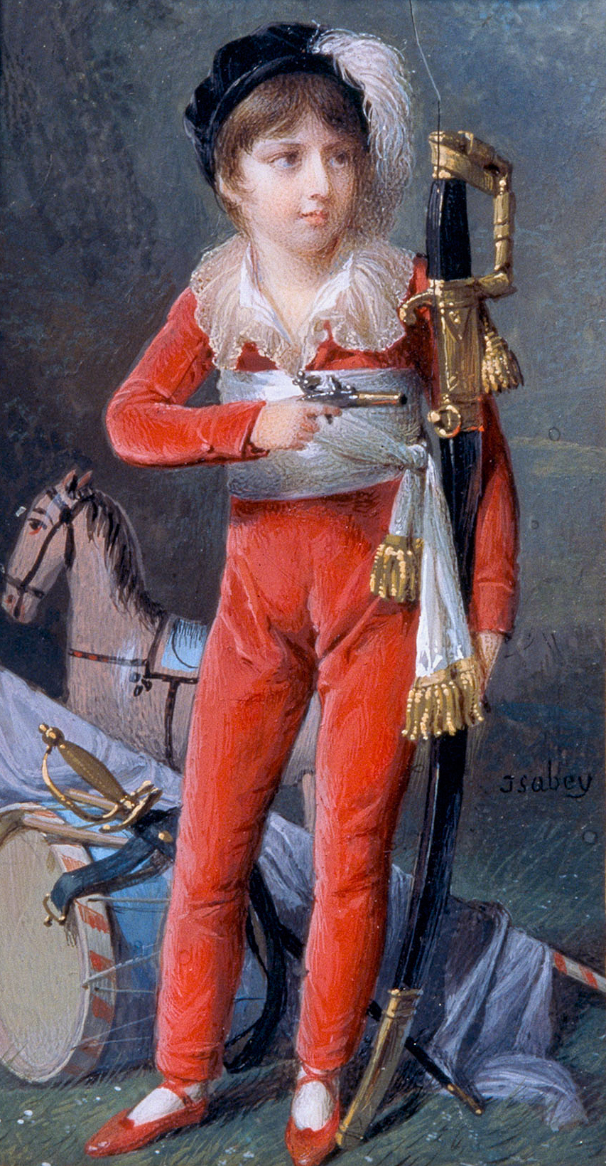 Childhood portrait of Oscar Bernadotte, the future King Oscar I of Sweden and Norway